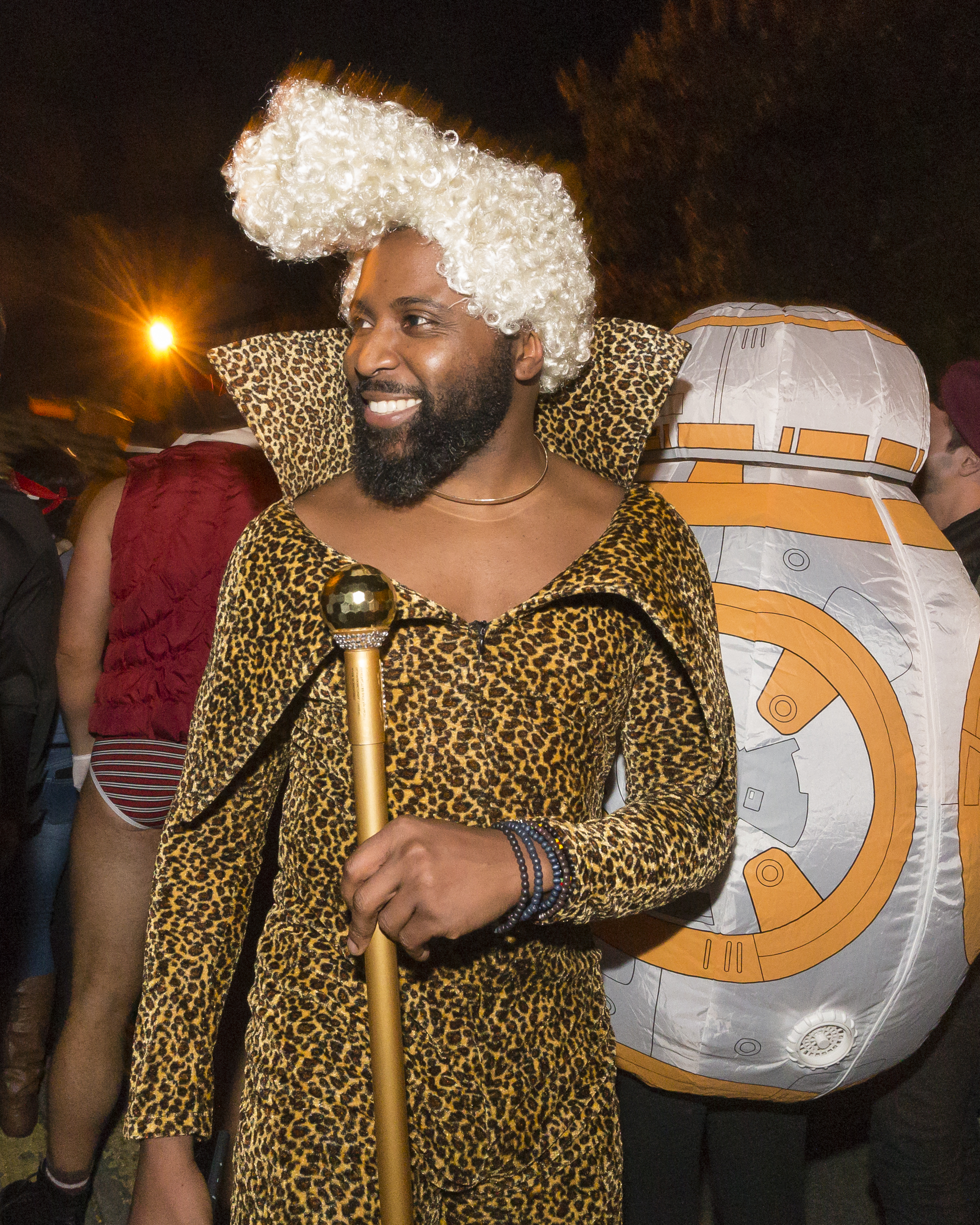 An African American Man at the Oaklawn Halloween Block Party